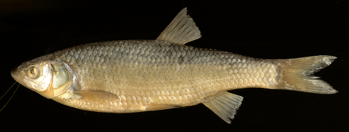 Squalius squalus NMW 49259, 195.5 mm SL, Slovenia: Rizana.